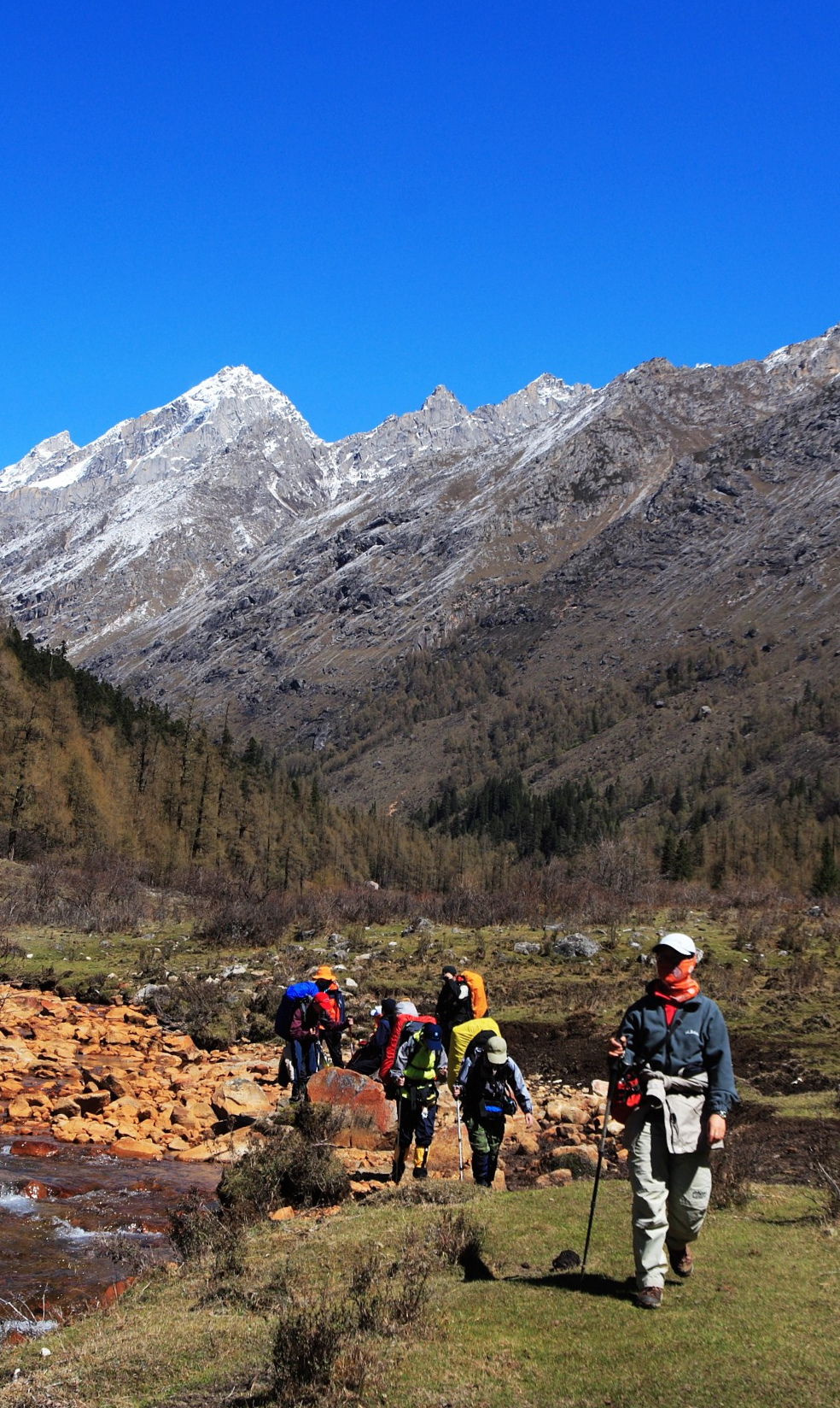 Hiking at Mt. Four Girls, Sichuan, China.